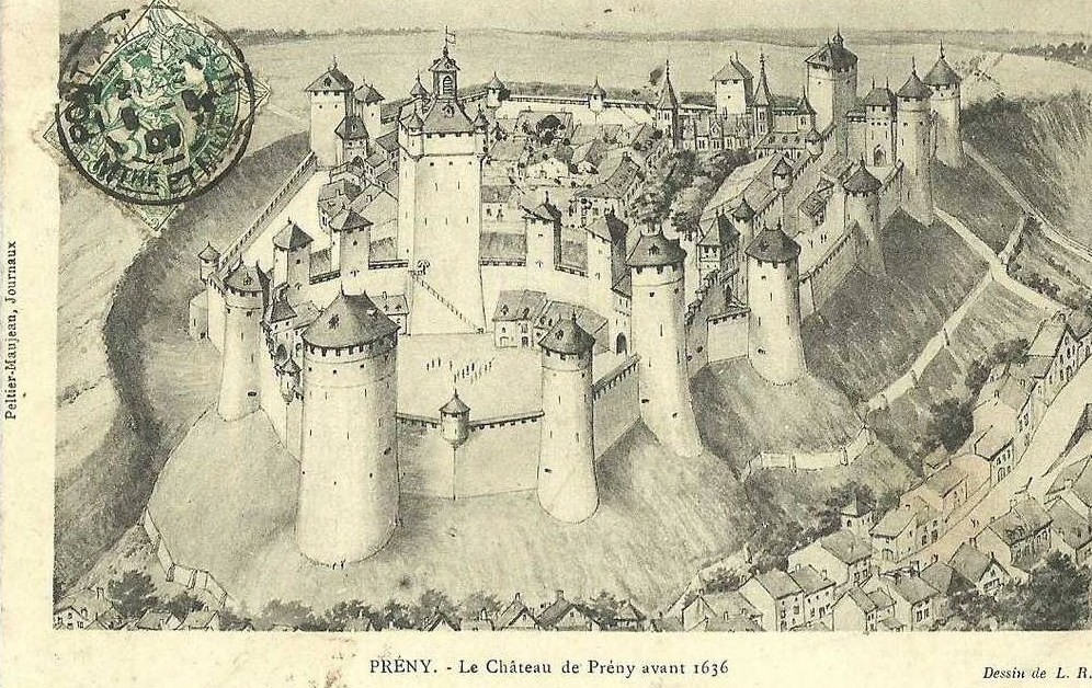 Prény castle. Reconstitution of the castle as it stood before it was dismantled in 1636, by order of Cardinal Richelieu, during the Thirty Years War. The king of France, Louis XIII, then faced the Duke of Lorraine, Charles IV.